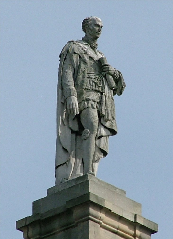 Charles Grey - atop the Grey Momument - Newcastle upon Tyne - England